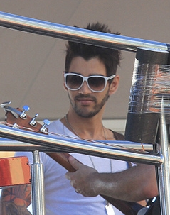 Gusttavo Lima in February 2013, at the Carnival in Bahia, Brazil.